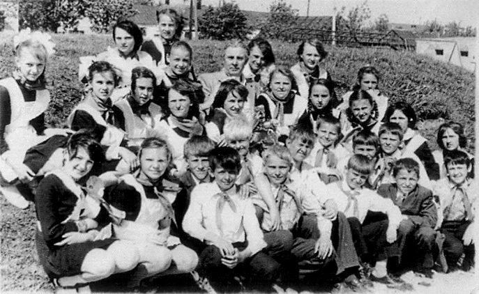 V. Kmetsynskyi with his ​​students. The end of the 70s of XX century.